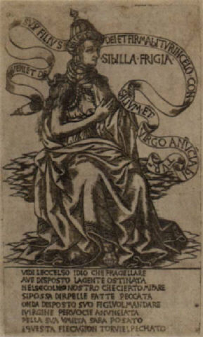 The Phrygian Sibyl, Etching